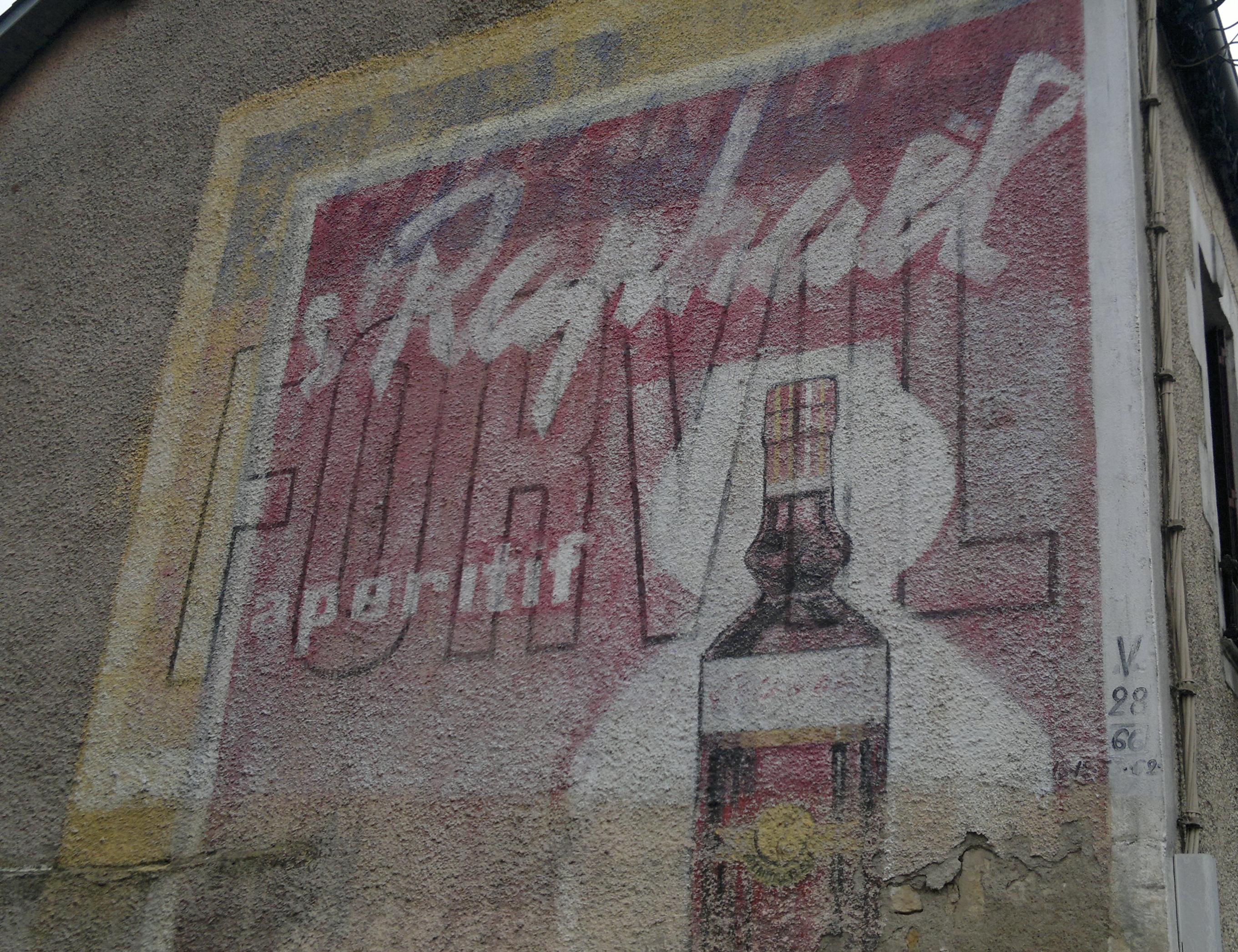 Old commercial wall painting in Prémery, Nièvre, France.